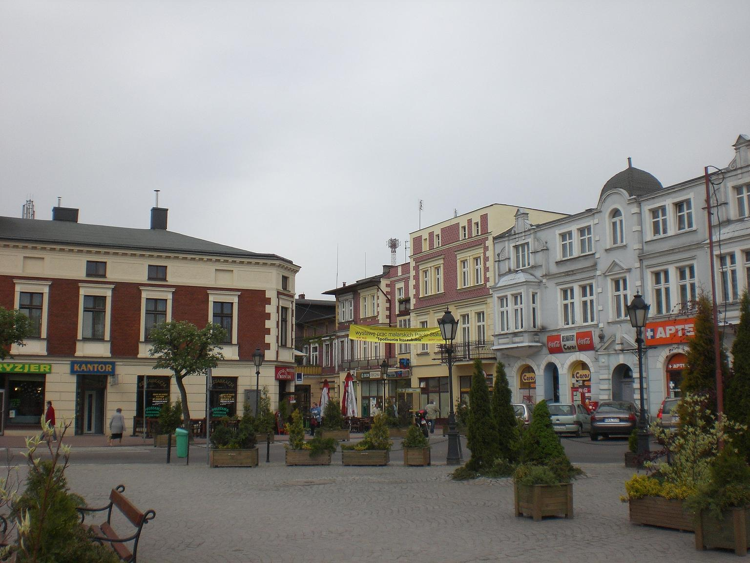 Market Square in Kartuzy, Poland